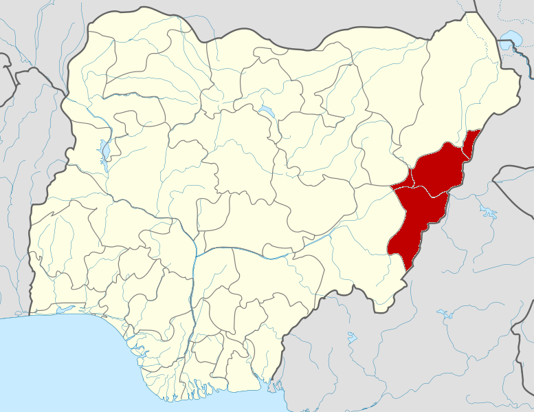 Map locator of Nigeria.